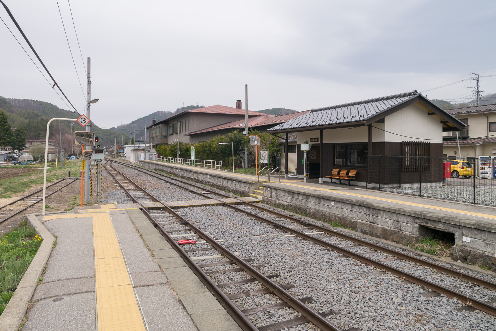 JR East Koumi Line Saku-Uminokuchi Station seen from teh platform for Komoro